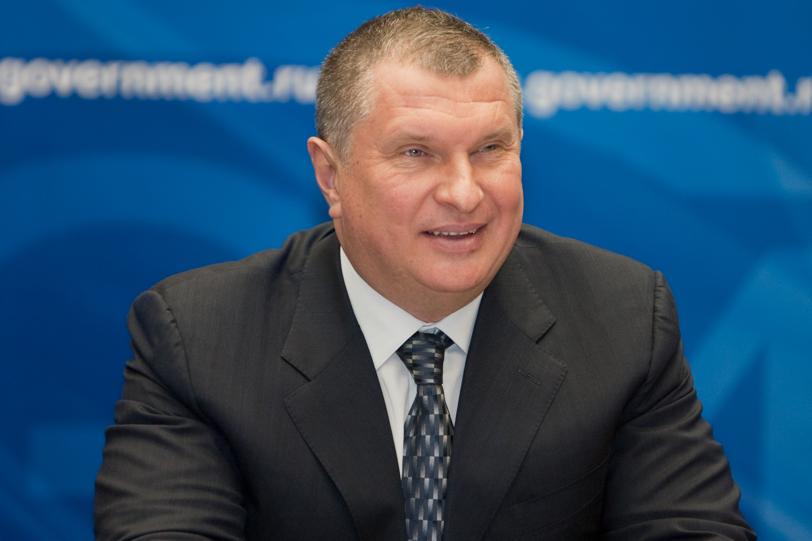 Igor' Ivanovich Sechin, Deputy Prime Minister of Russian Federation, during the conference of Russian general and chief constructors in FGUP VEI (All-Russian Electrotechnical Institute, Moscow)